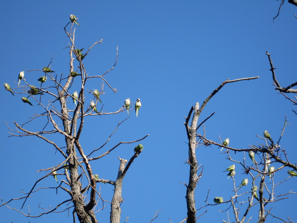 Monk Parakeets, also known as Quaker Parrots, living in Edgewater, NJ